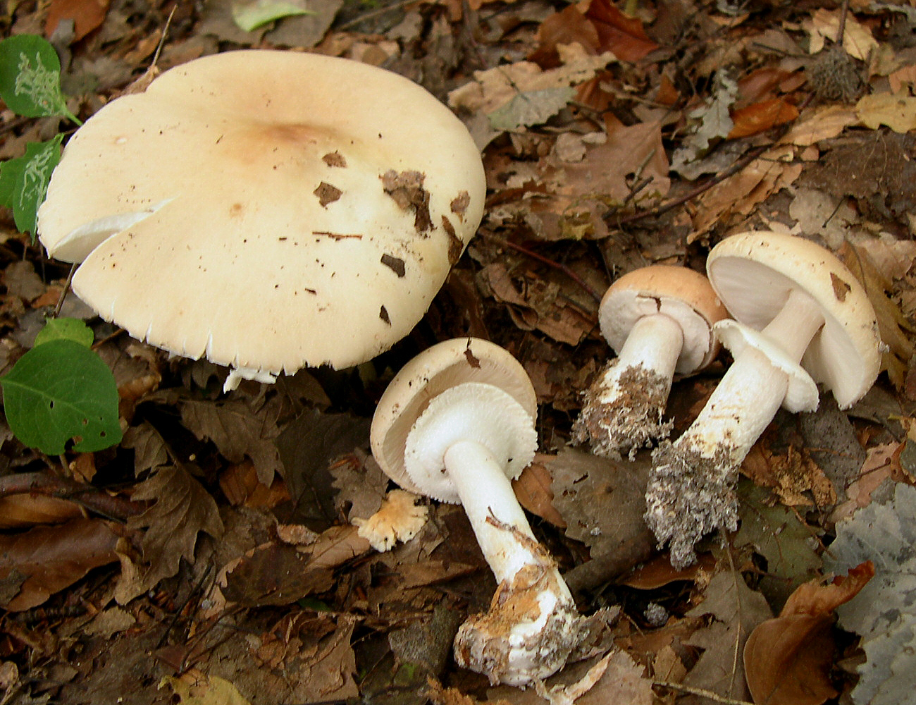 Limacella guttata (Pers.: Fr.) Konrad & Maublanc